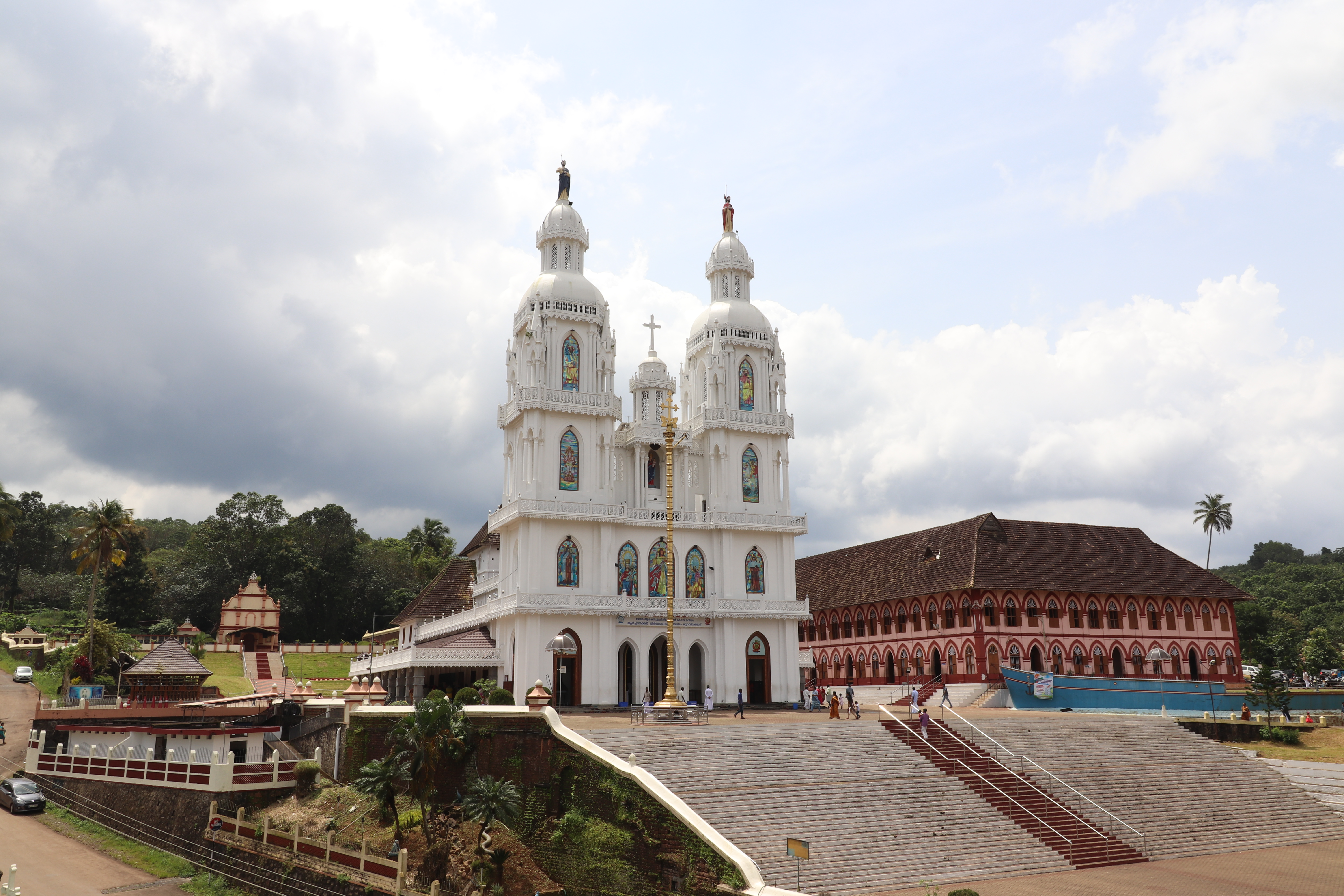 Church kuravilangad